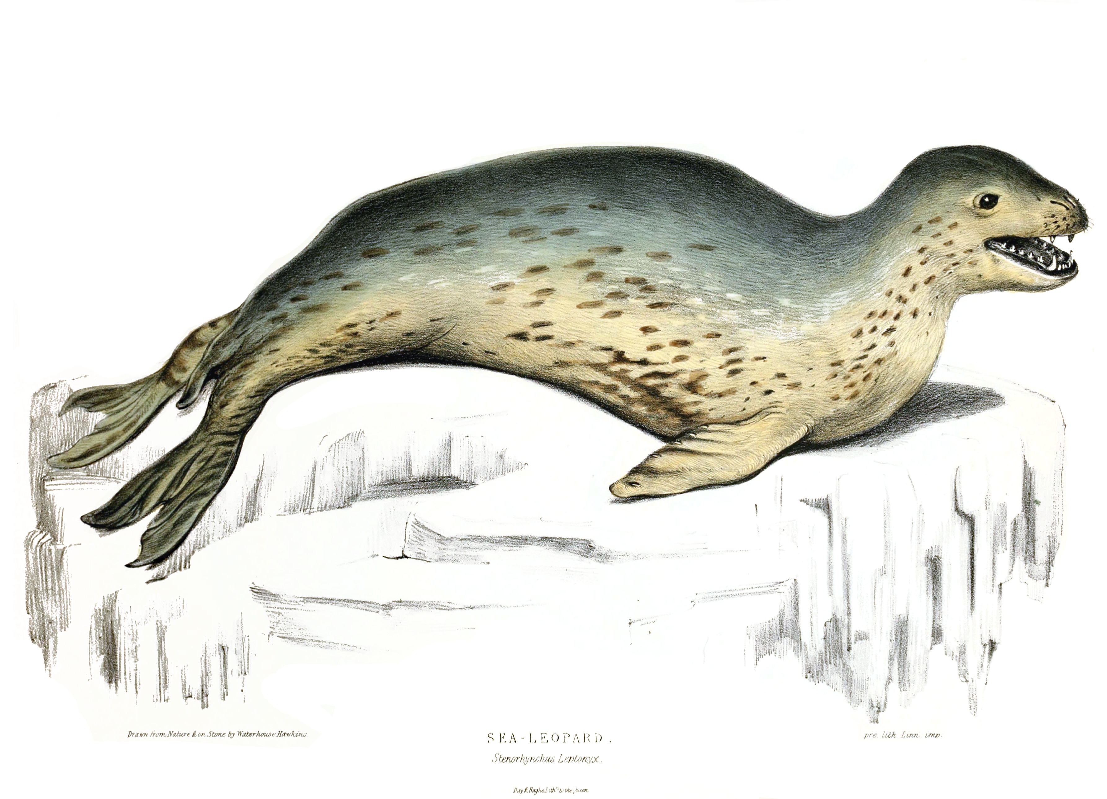 Leopard Seal (Hydrurga leptonyx)